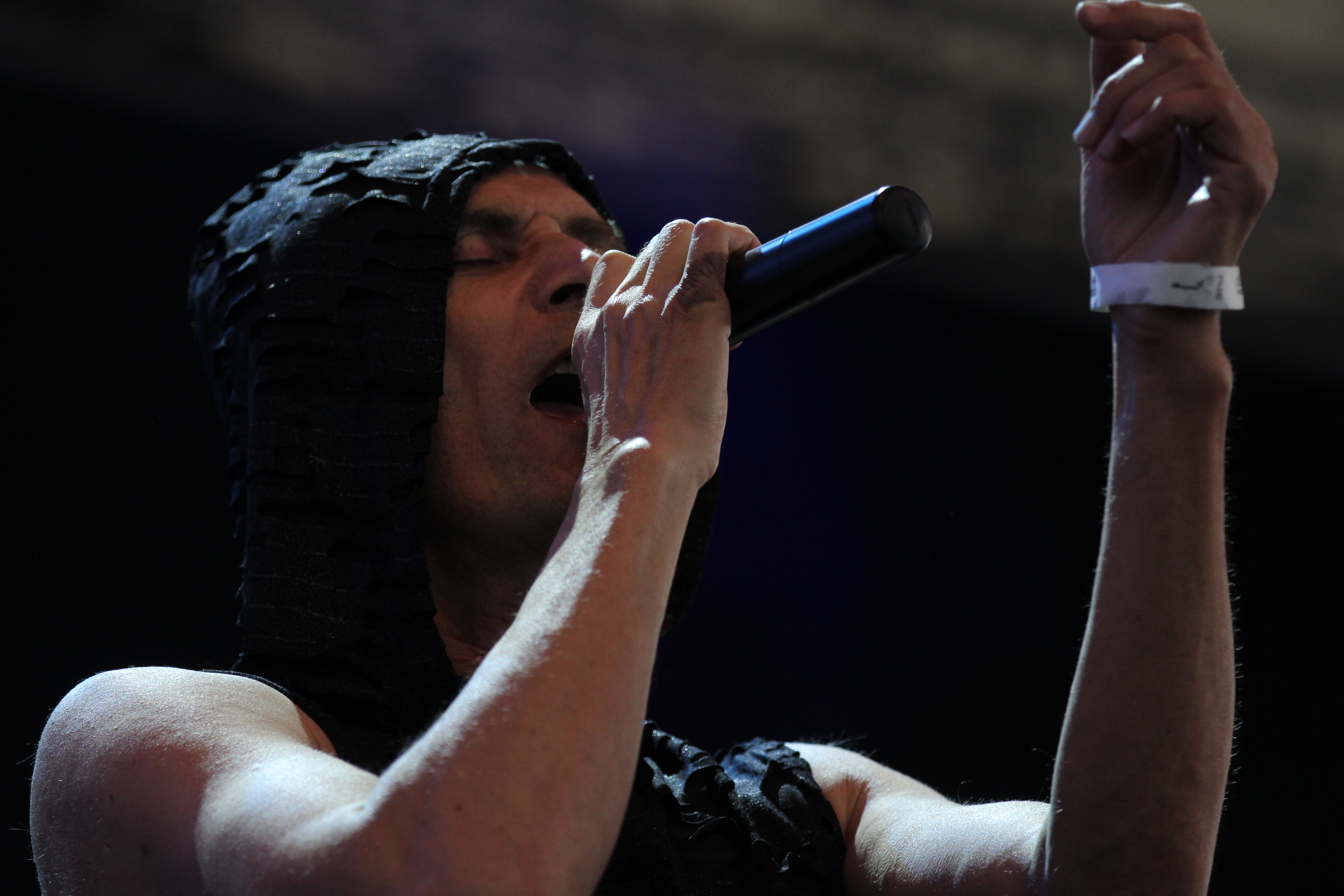 The Canadian electronica band Front Line Assembly at the Blackfield festival 2014 in Gelsenkirchen